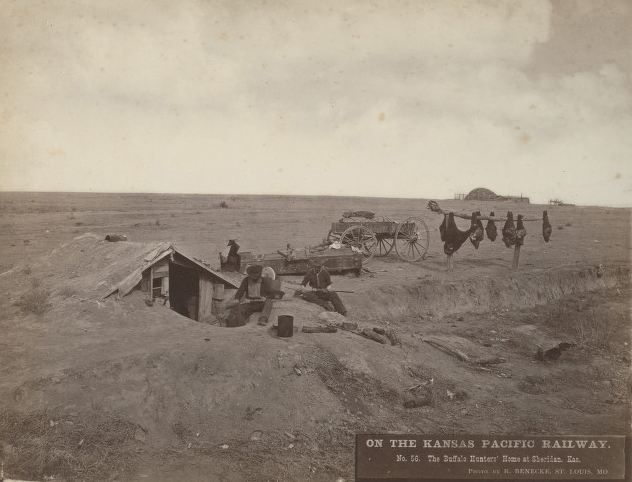 Title: No. 56. The Buffalo Hunters' Home at Sheridan, Kas. Creator: Benecke, Robert, 1835-1903 Date: 1873 Part Of: //digitalcollections.smu.edu/cdm/search/collection/wes/searchterm/Vault Ag1982.0086/mode/exact/ Place: Sheridan, Kansas Physical Description: 1 photographic print: albumen; 19.25 x 25 cm. on 20 x 27.5 cm. mount File: vault_ag1982_0086_56_opt.jpg Rights: Please cite DeGolyer Library, Southern Methodist University when using this file. A high-resolution version of this file may be obtained for a fee. For details see the web page. For other information, . For more information, View U.S. West: Photographs, Manuscripts, and Imprints